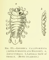 Full body render of the E. californica.